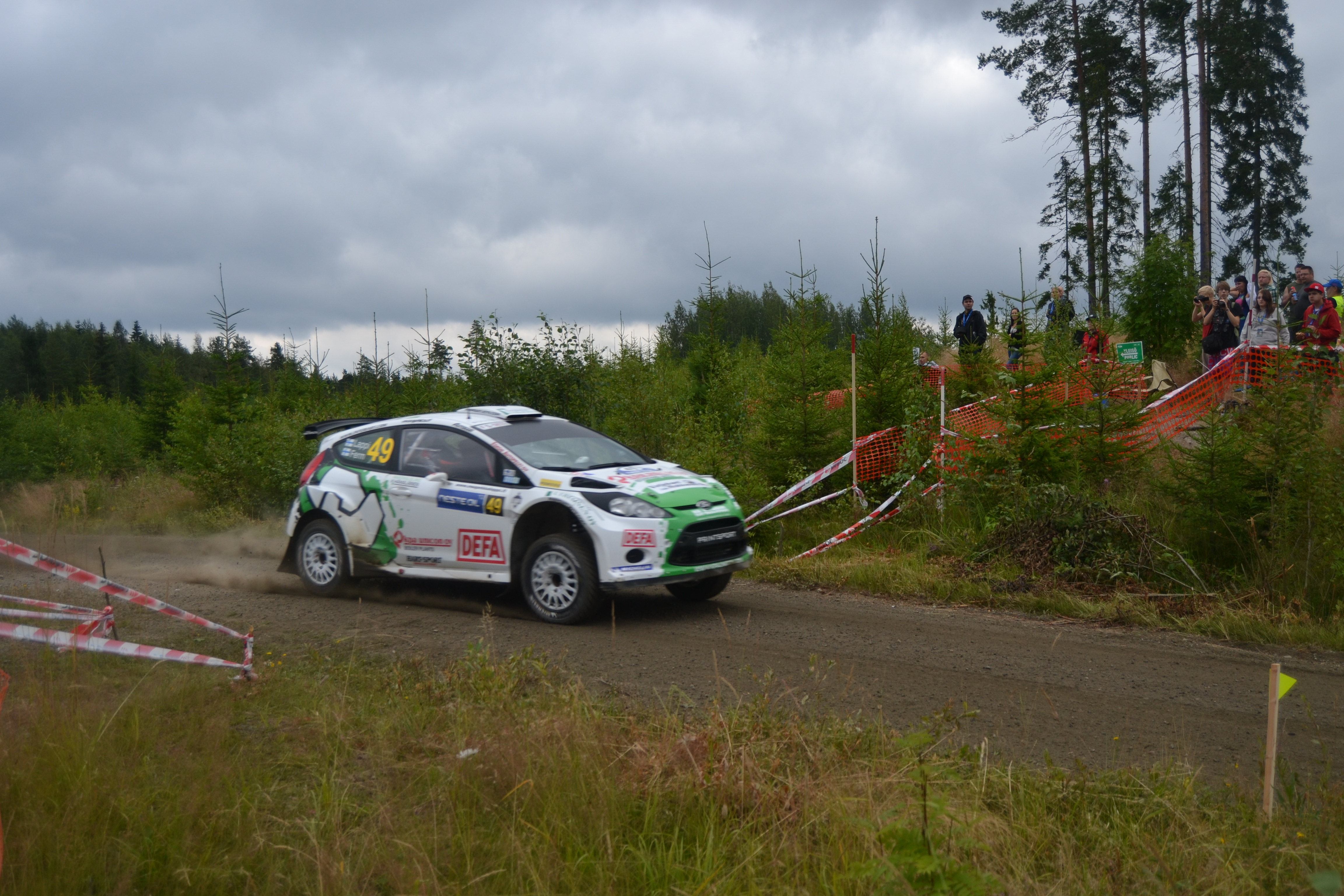 Esapekka Lappi at 2nd Surkee stage at 2012 Rally Finland Unknown